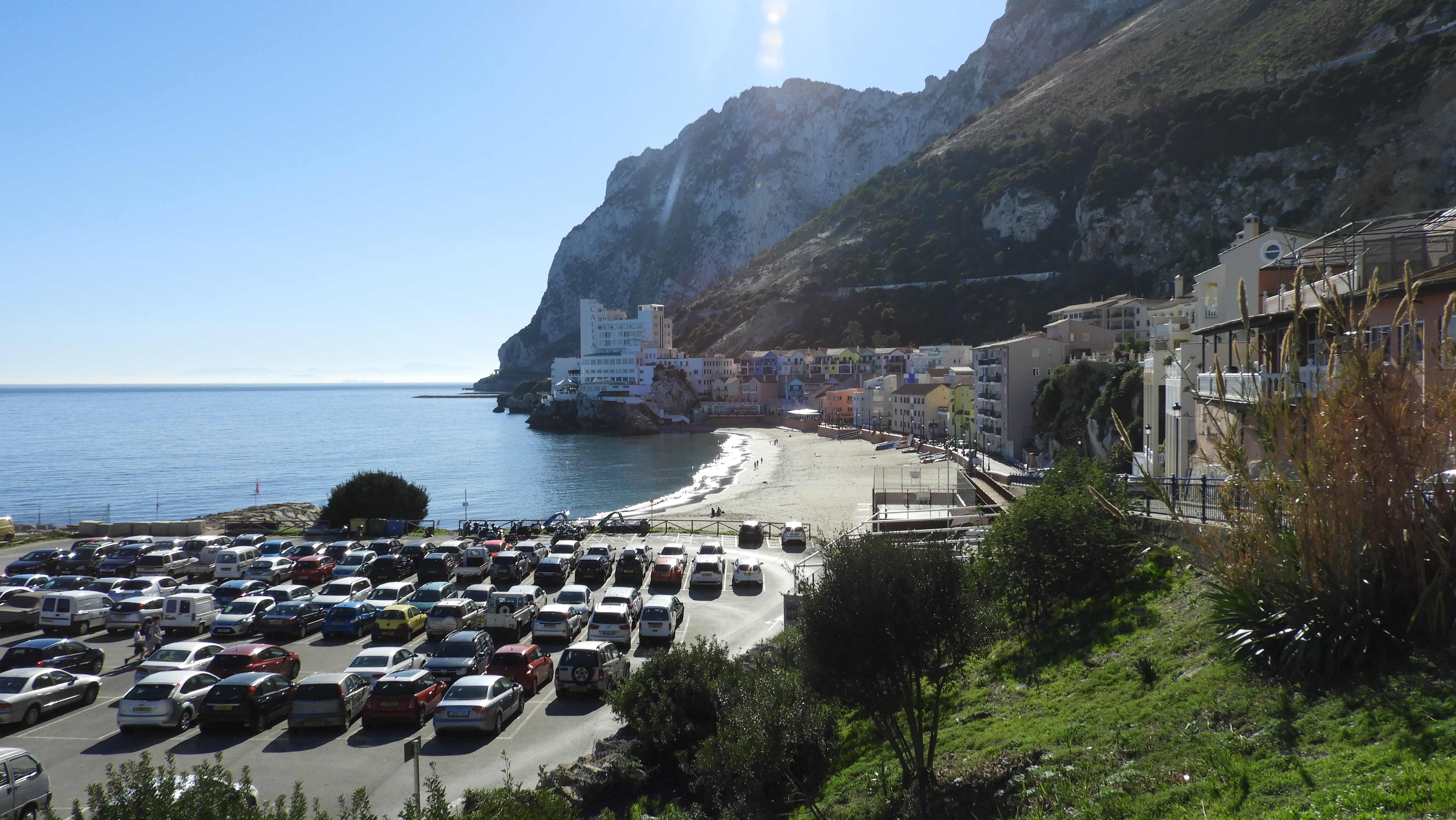 Caleta Hotel (Sir Herbert Miles Road) Gibraltar (as seen) on 30 December 2017